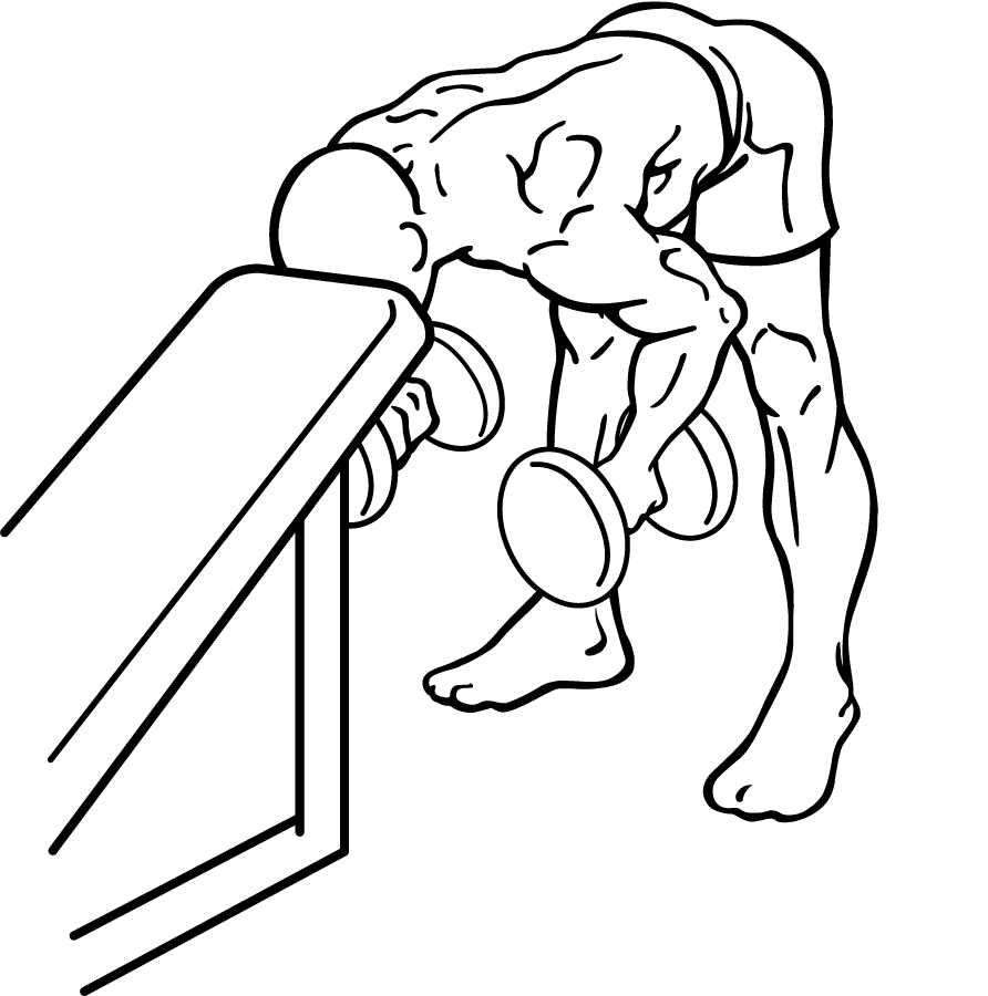 an exercise of shoulders